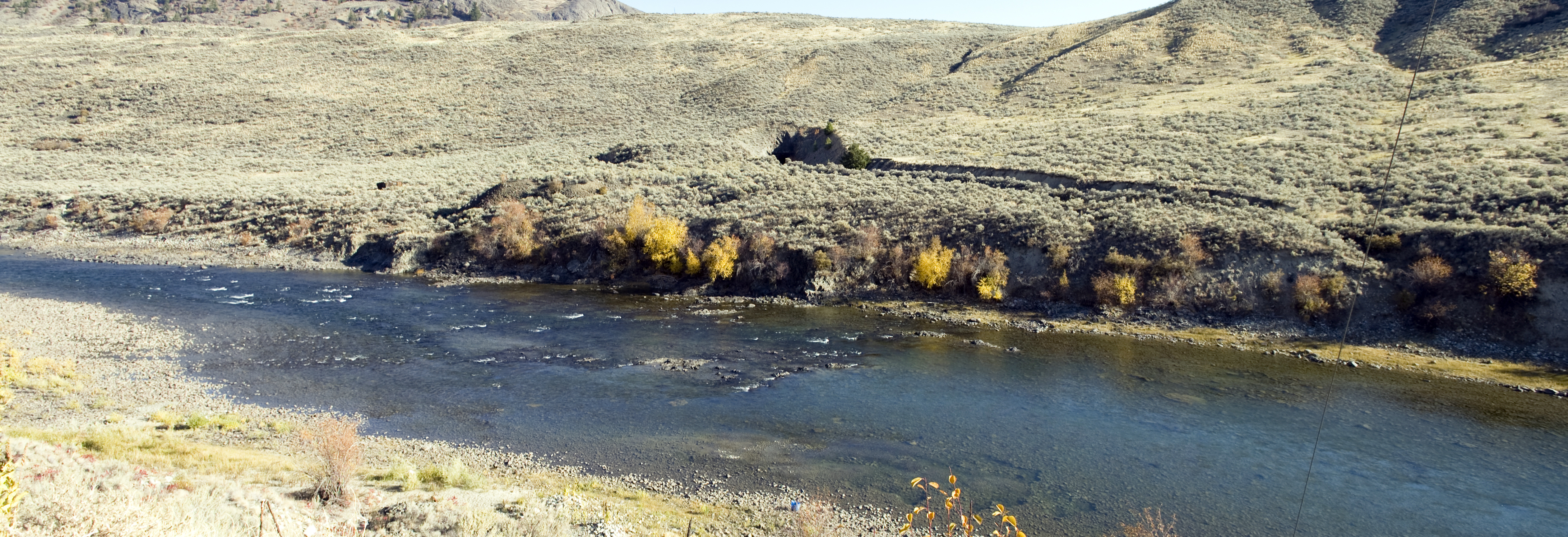 A photograph of an abandoned railroad along the Simikameen River near Nighthawk in Okanogan County, Washington.